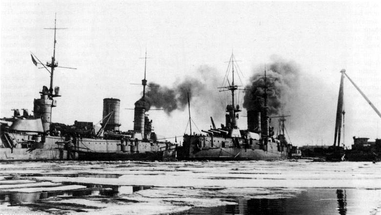 The sovietrussian battleships "Petropavlovsk" and "Sevastopol" in the port of Kronstadt.